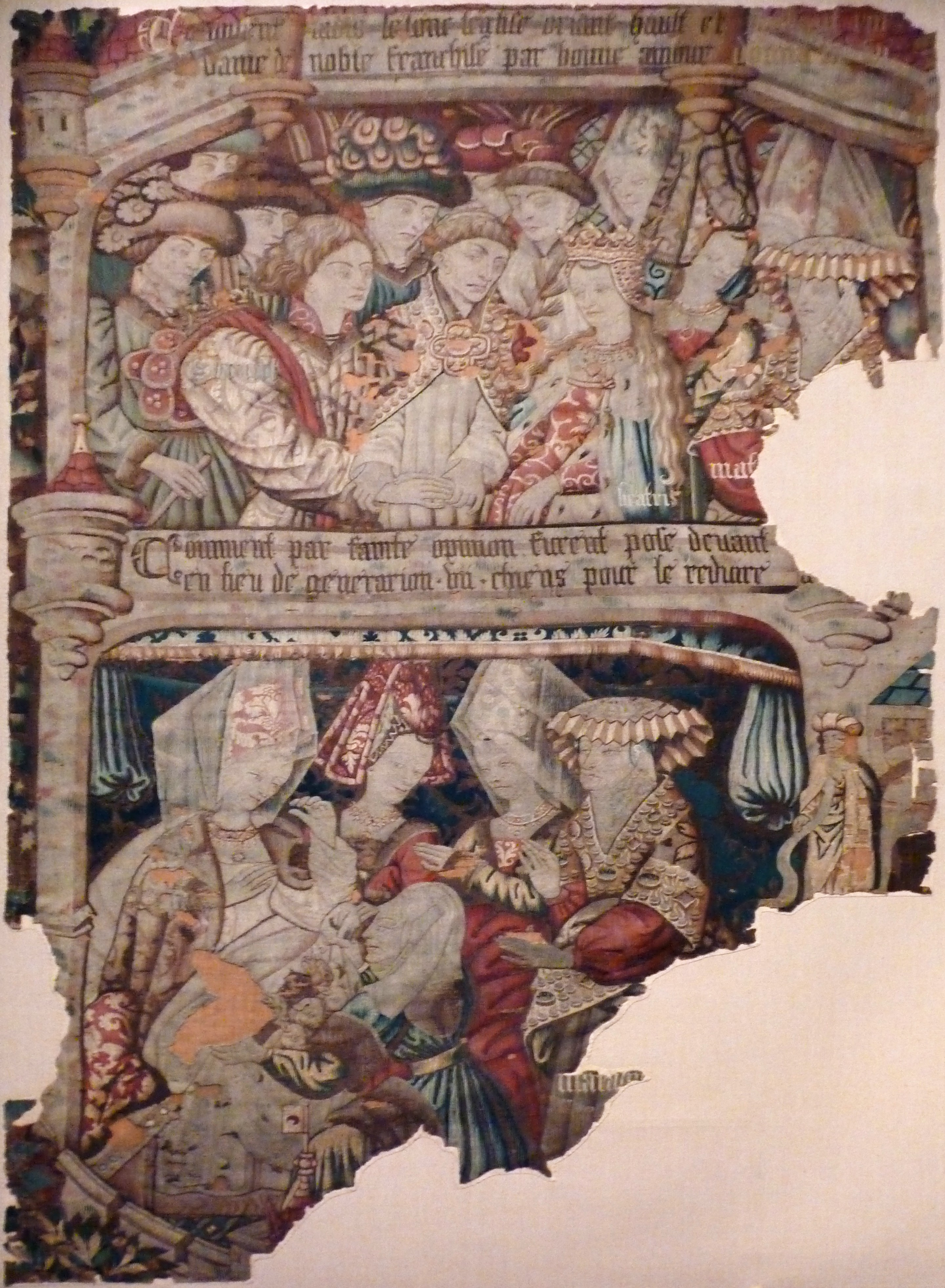 Knight of the Swan, 1482, southern low countries, probably Tournai, from Austrian museum of Applied Art / Contemporary Art (MAK), inv T 8211/1918